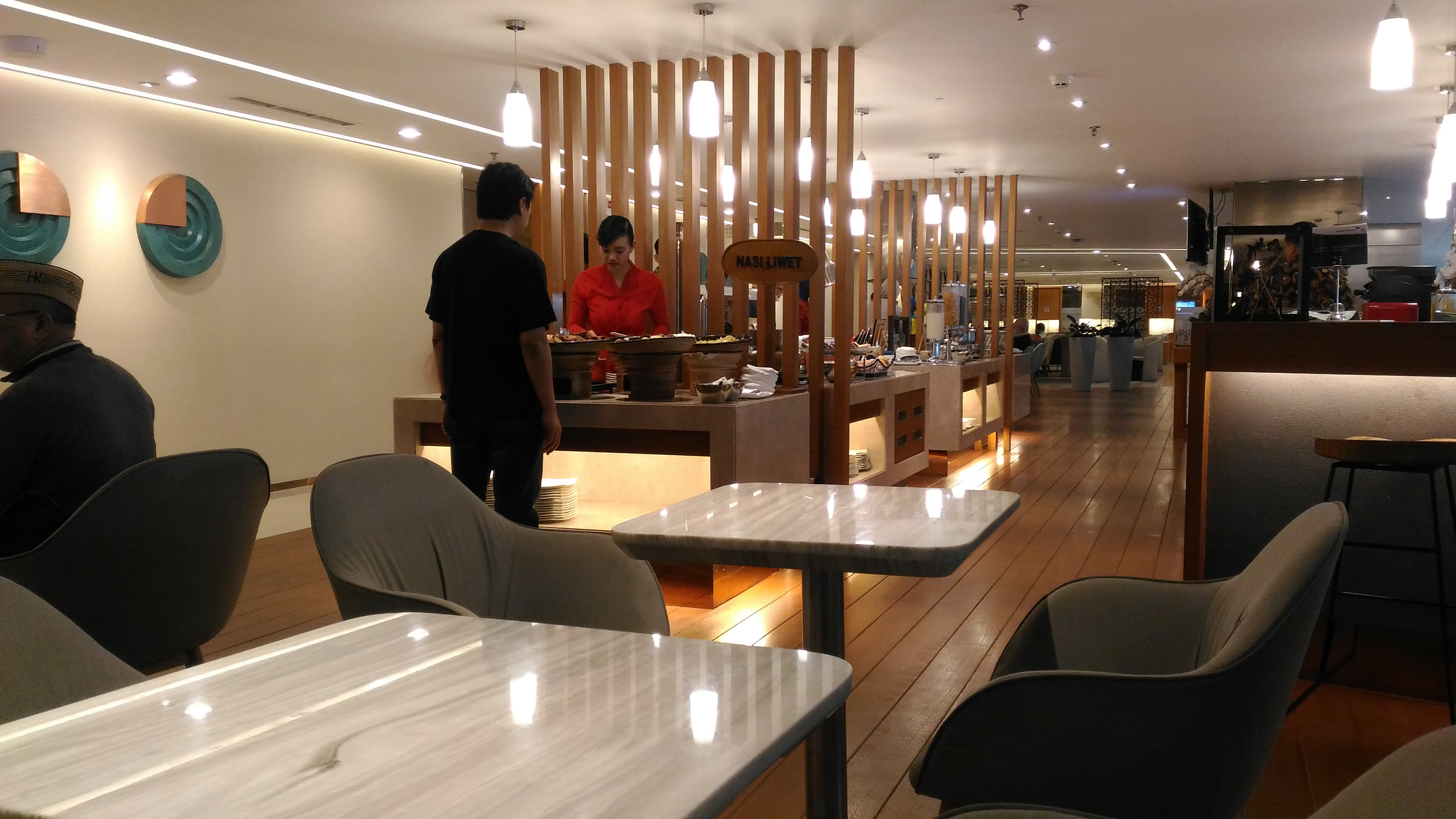 Garuda Indonesia Executive Lounge at Terminal 3 Soekarno-Hatta Airport, Jakarta